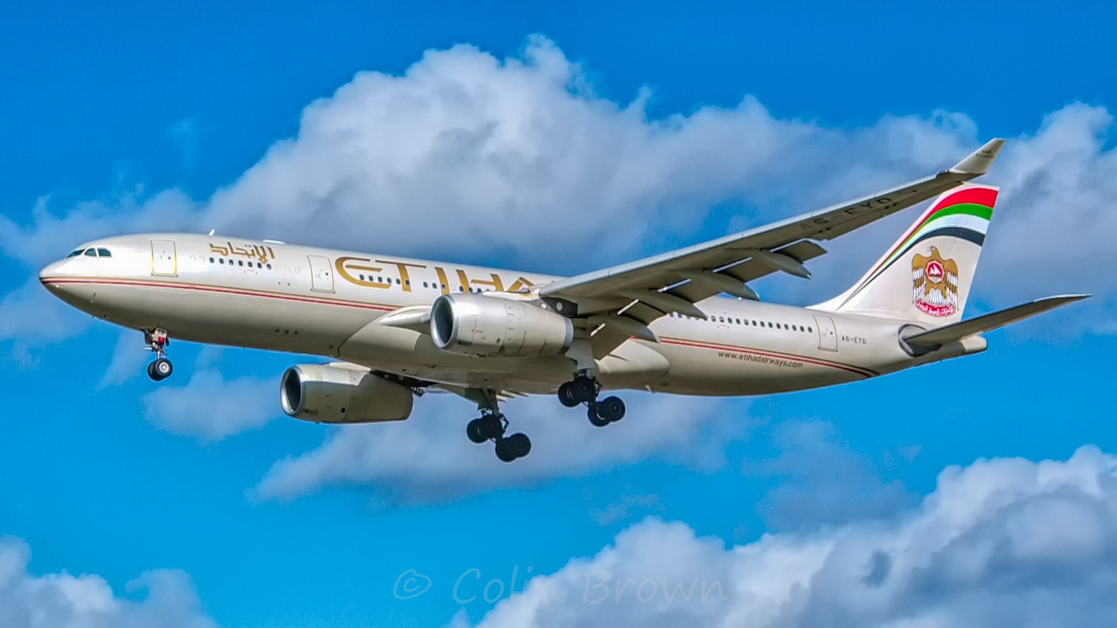 London Heathrow - March 18, 2007